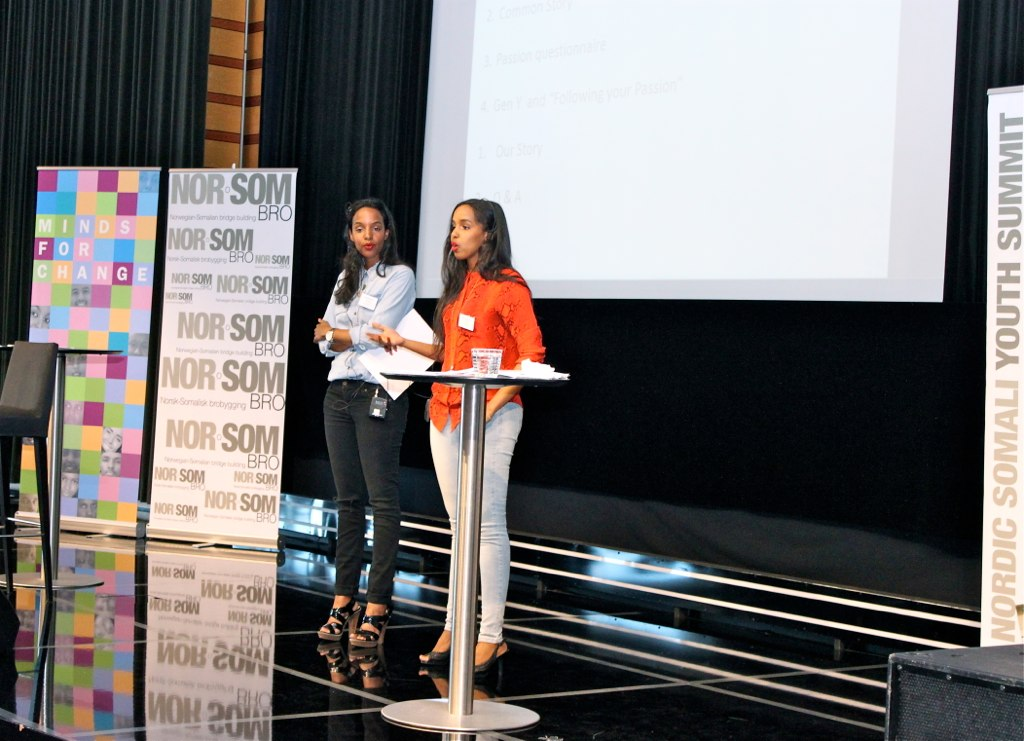 Somali fashion designers Ayaan and Idyl Mohallim, founders of the Mataano line, at the Nordic Somali Youth Summit 2013.